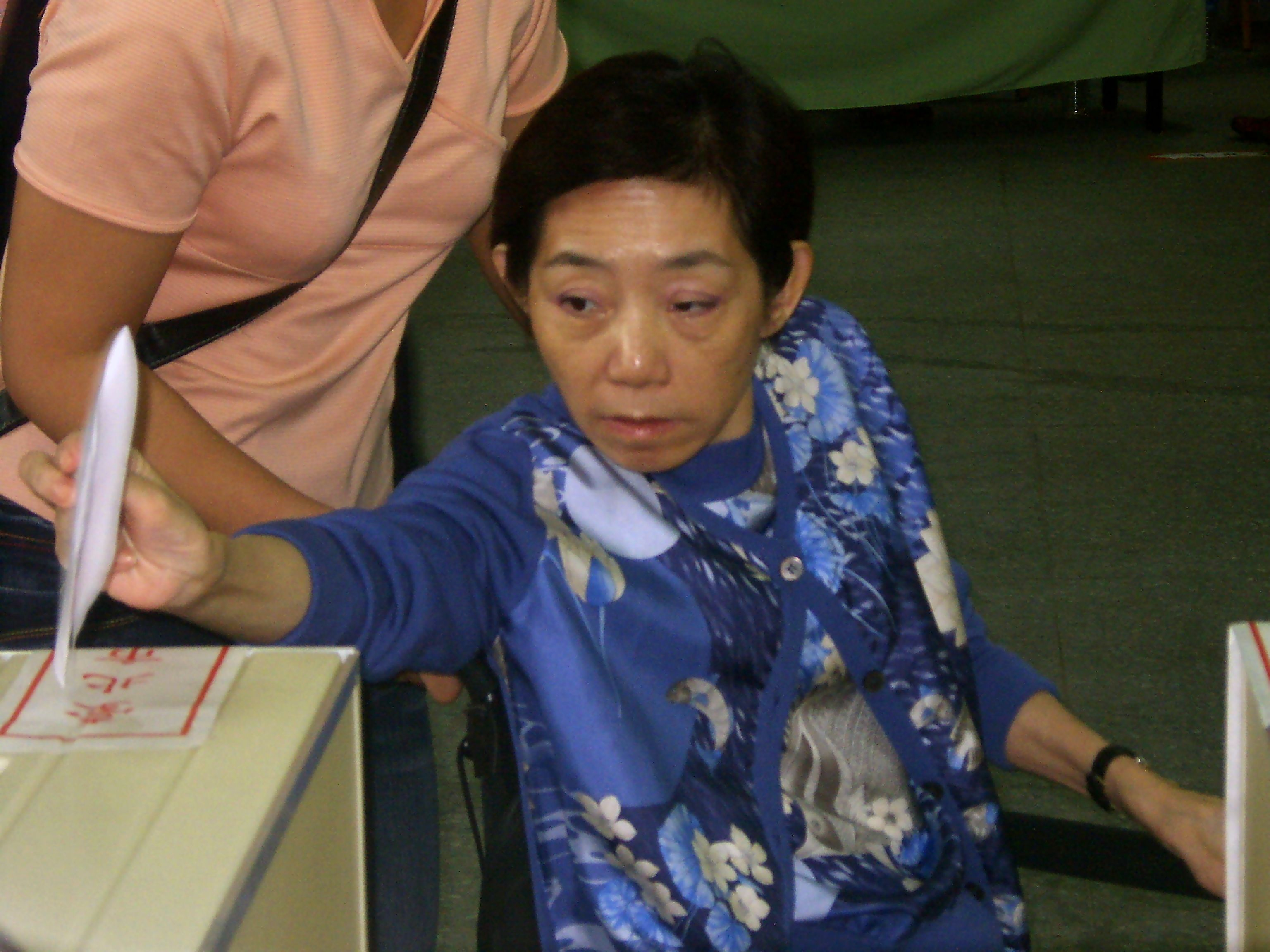 2008 Taiwan Legislative Election: Wu shu-chen. Bân-lâm-gú: 吳淑珍佇2008年臺灣立法委員的選舉投票。Gôo Siok-tin tī 2008-nî Tâi-uân li̍p-huat uí-guân ê suán-kí tâu-phiò.